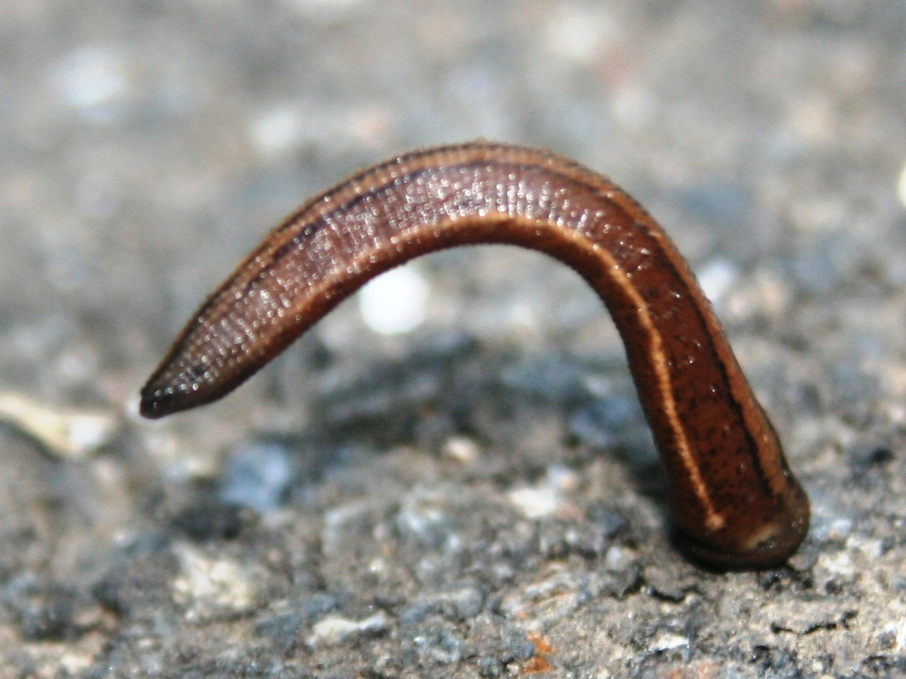 Haemadipsa zeylanica japonica in Mount Hanabusa, Ibigawa, Gifu, Japan.